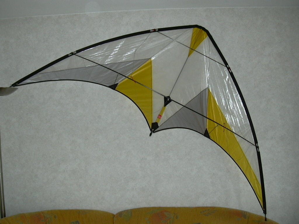 Indoor Kite "Amazing", Manufacturer: Level ONE